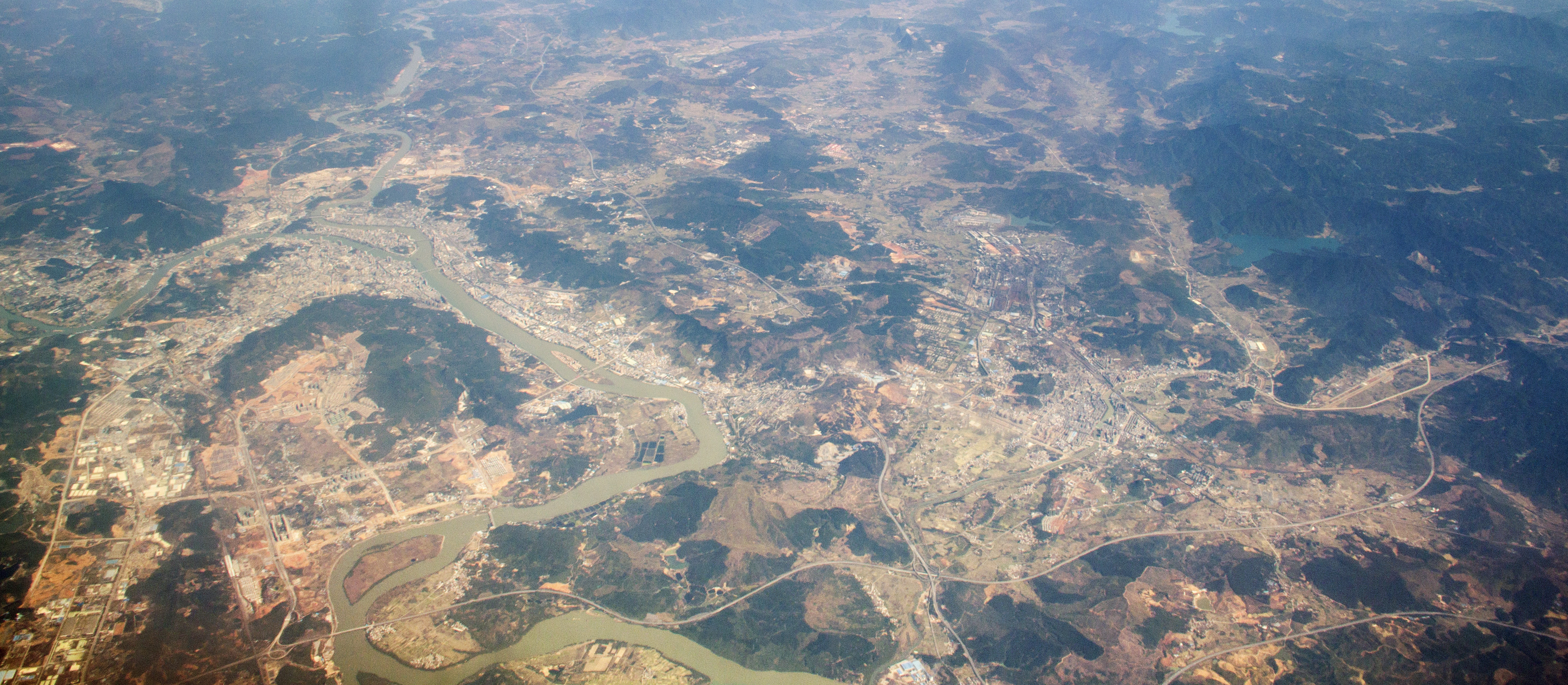 Shaoguan